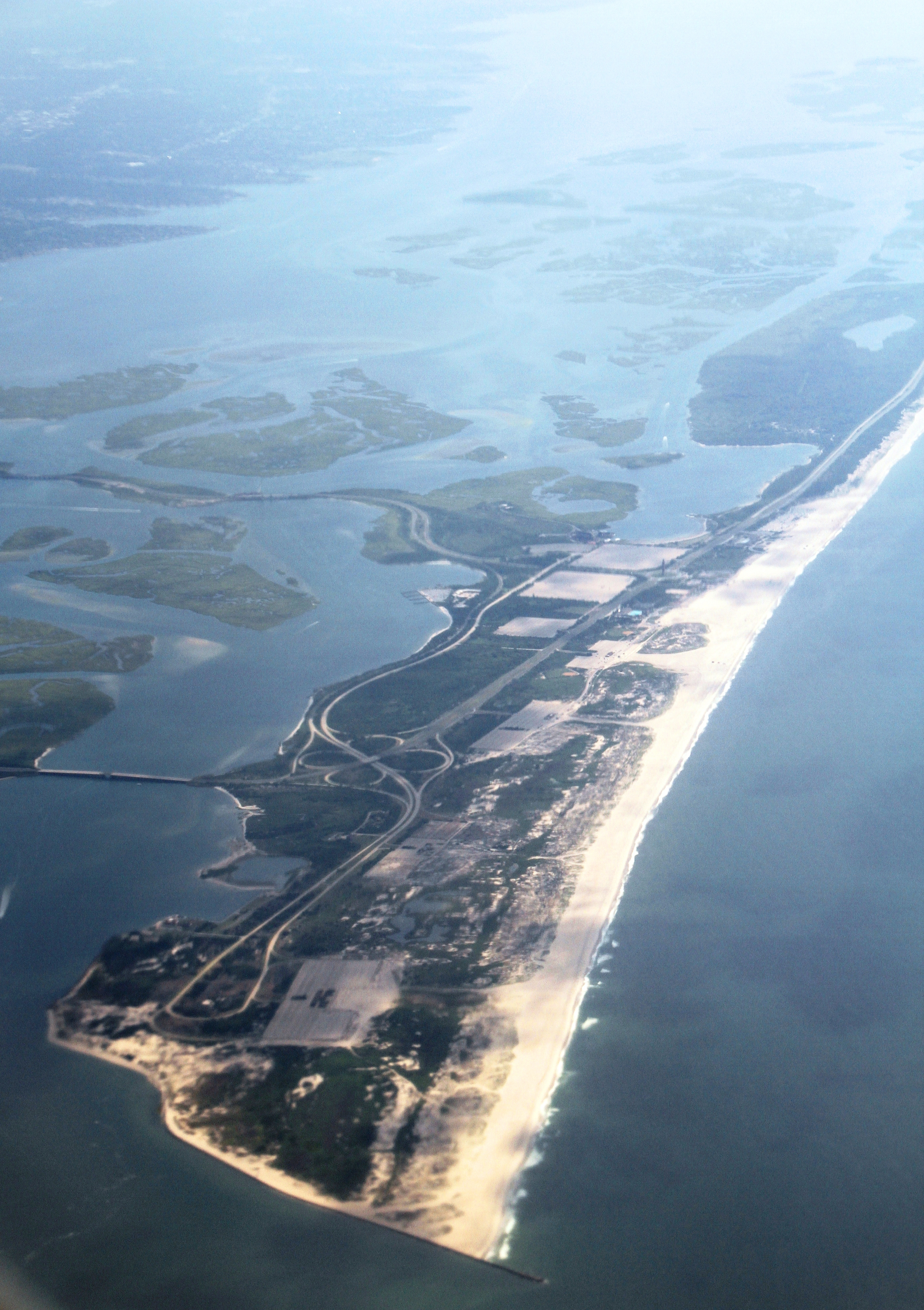 Aerial view from the coastal area of western Long island, New York. At the tip of the peninsula is a US Coast Guard station.